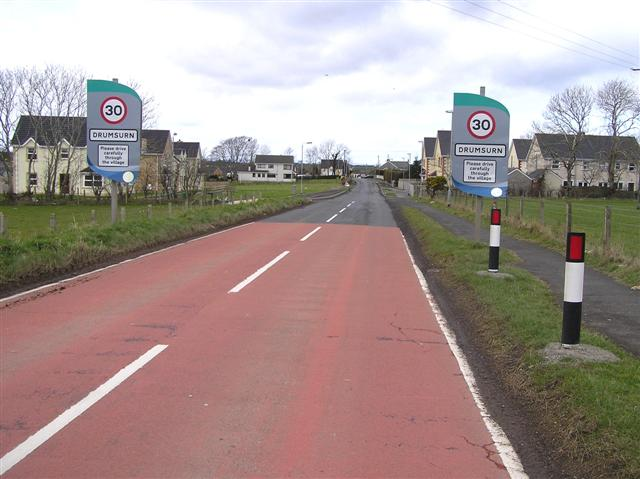 Drumsurn Road Heading north-west into the village